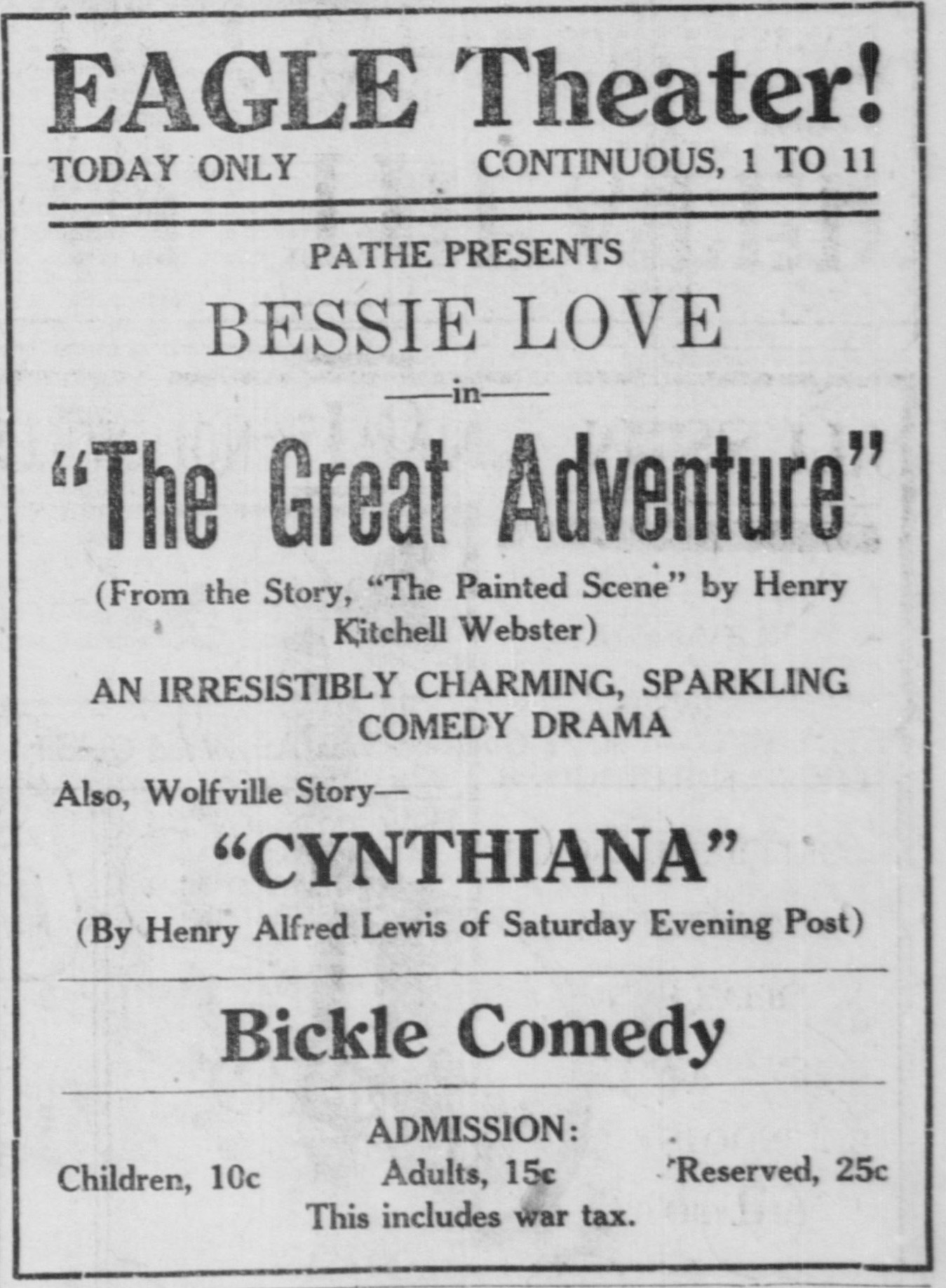 The Great Adventure, also known as Her Great Adventure and Spring of the Year, is a 1918 silent film directed by Alice Guy-Blaché, and starring Bessie Love. Newspaper advert.